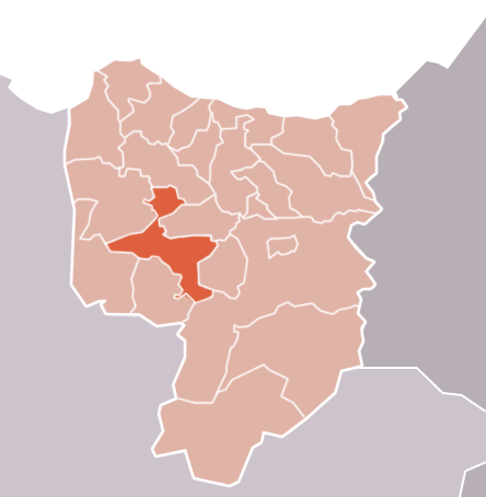 Iferni